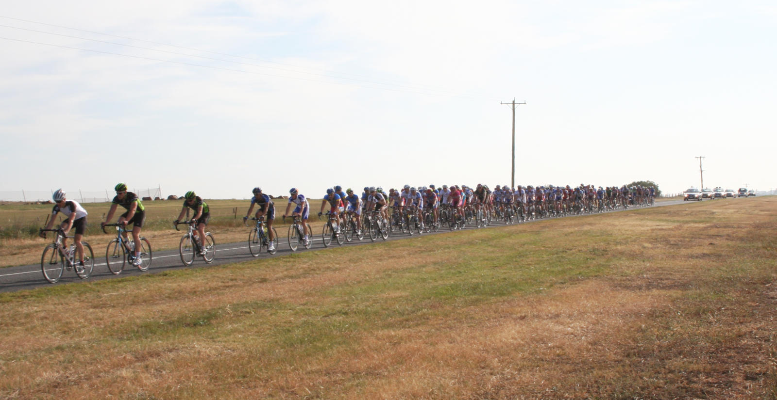 Cyclists in the 2007 Melbourne to Warrnambool Classic, near Werribee